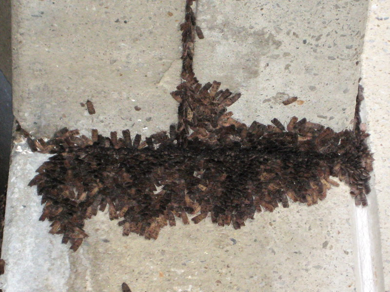 Close up of Bogong Moths, Sydney, October 2007